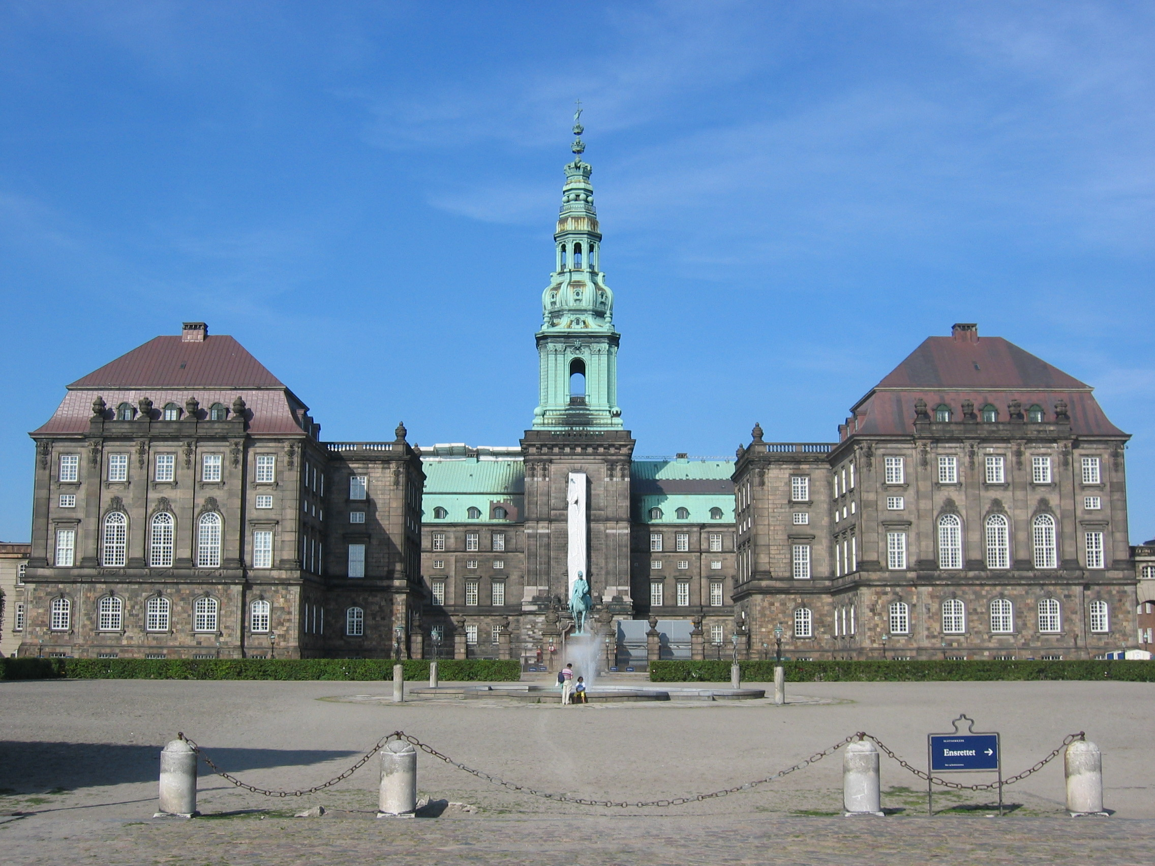 Christiansborg Palace - Home of the Danish Parliament, Supreme Court, and Prime Minister